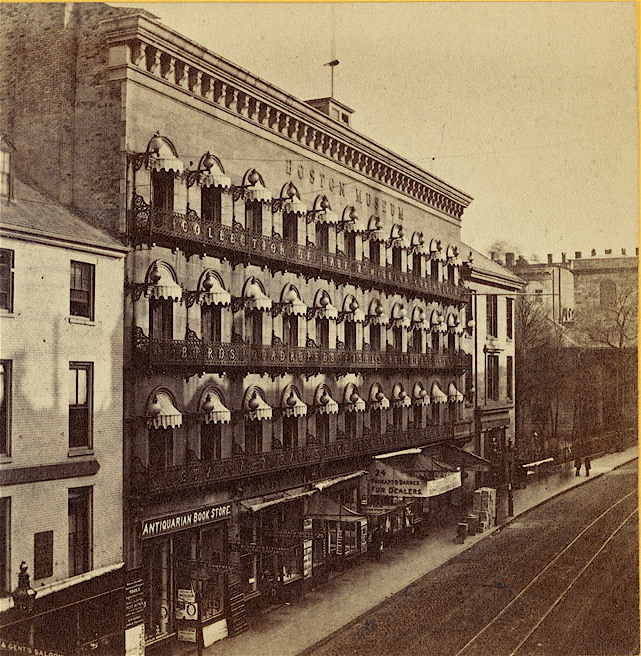 Accession No.: 06_11_000082 Title: Boston Museum Series: Boston and Vicinity Local Subject: Commercial Buildings Subject: Boston (Mass.) Publisher: Joseph L. Bates Format: Derived from Sterograph BPL Department: Print